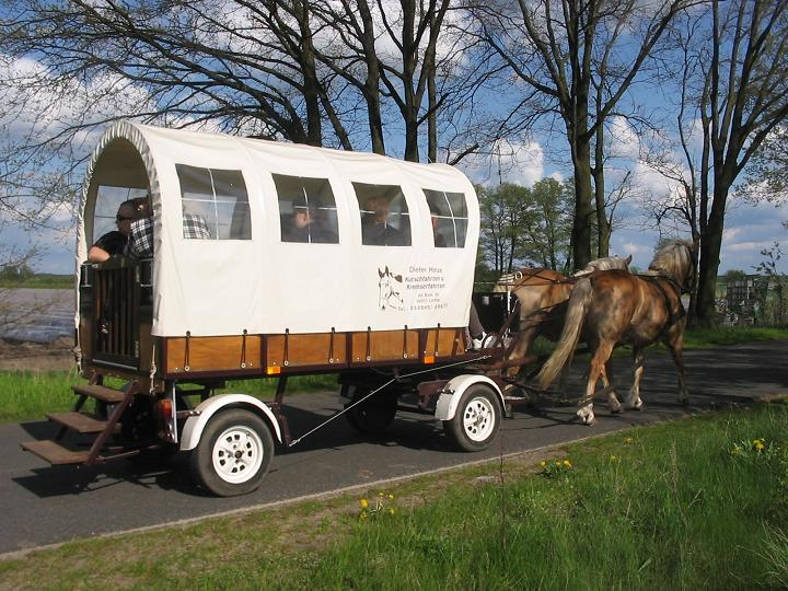 Horse-drawn carriage on Vatertag 2008 in the nature park Nuthe-Nieplitz between the villages Schäpe and Salzbrunn, parts of the town Beelitz in the district Potsdam-Mittelmark, state Brandenburg, Germany.